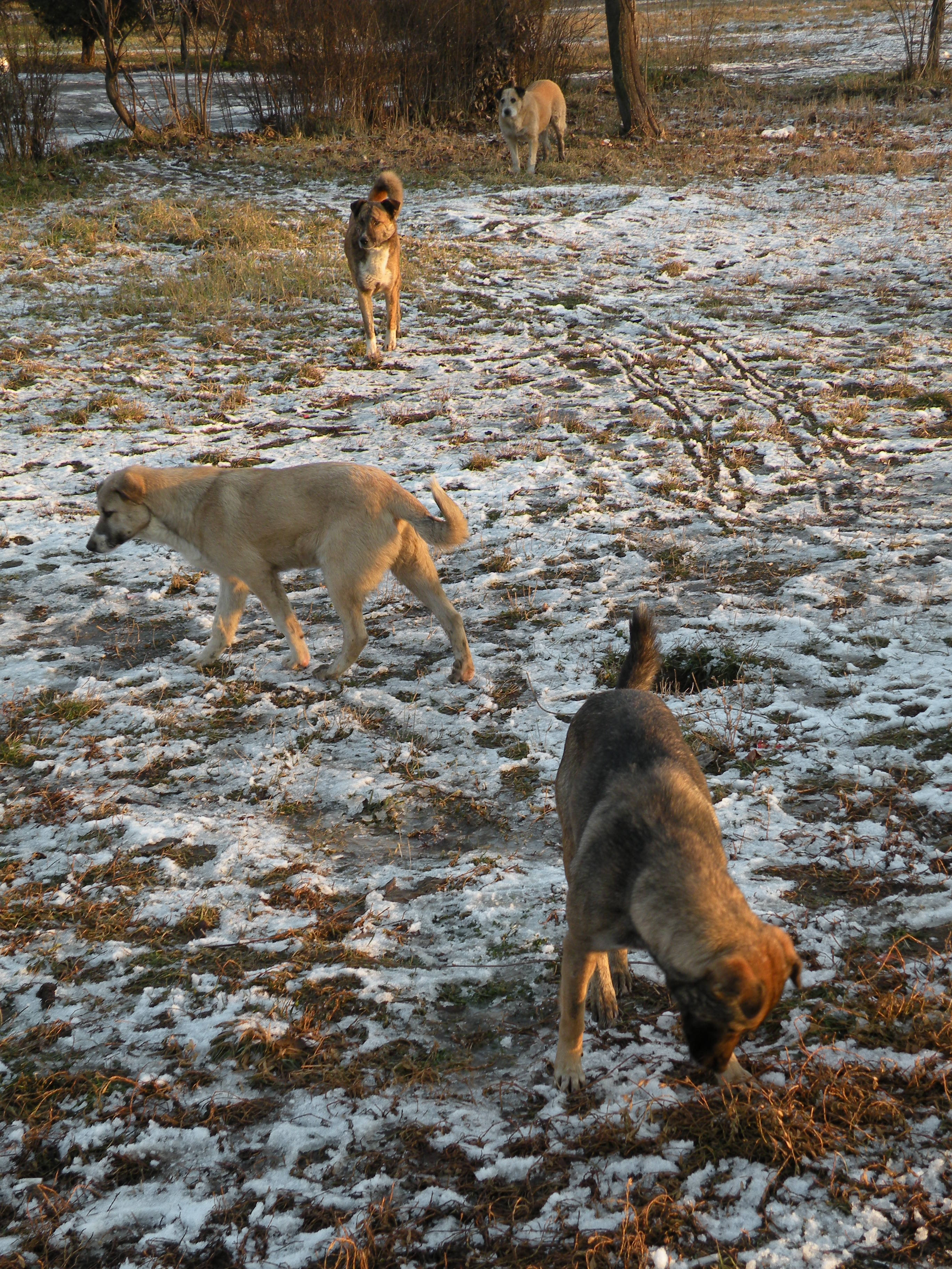 Feral dogs (Canis lupus familiaris) living in Bucharest, Romania.